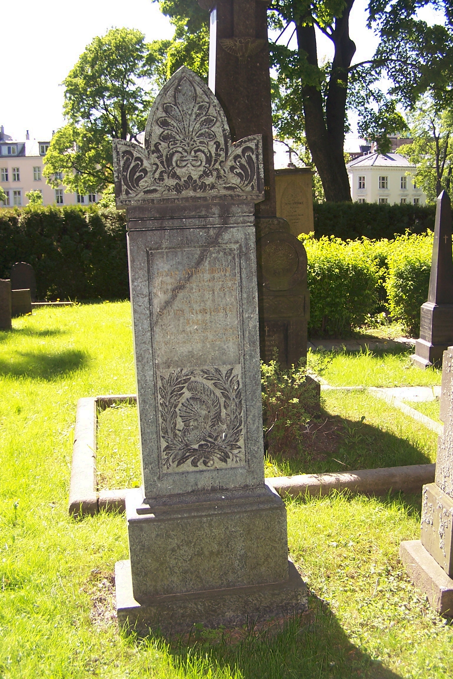 Tomb of Jonas Anton Hielm at Vår Frelsers gravlund, Oslo